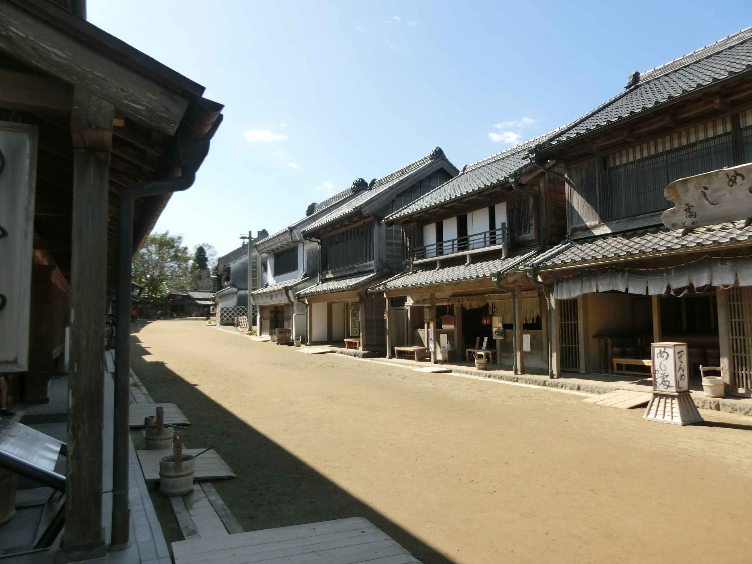 Merchant's Houses (Boso no mura)